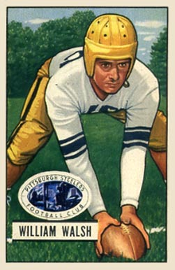 American football player Bill Walsh (American football player) on a 1951 Bowman card.